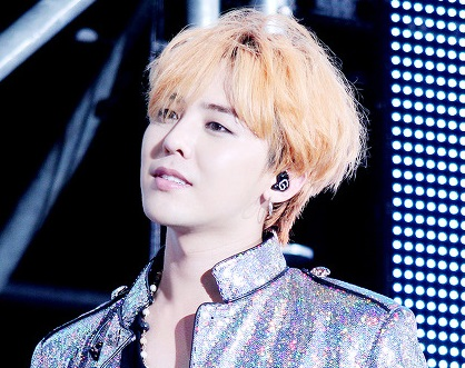 G-Dragon on Infinite Challenge Yeongdong Expressway Music Festival 2015. Cropped for face-shot.